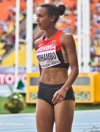 Malaika Mihambo, german long jump athlete